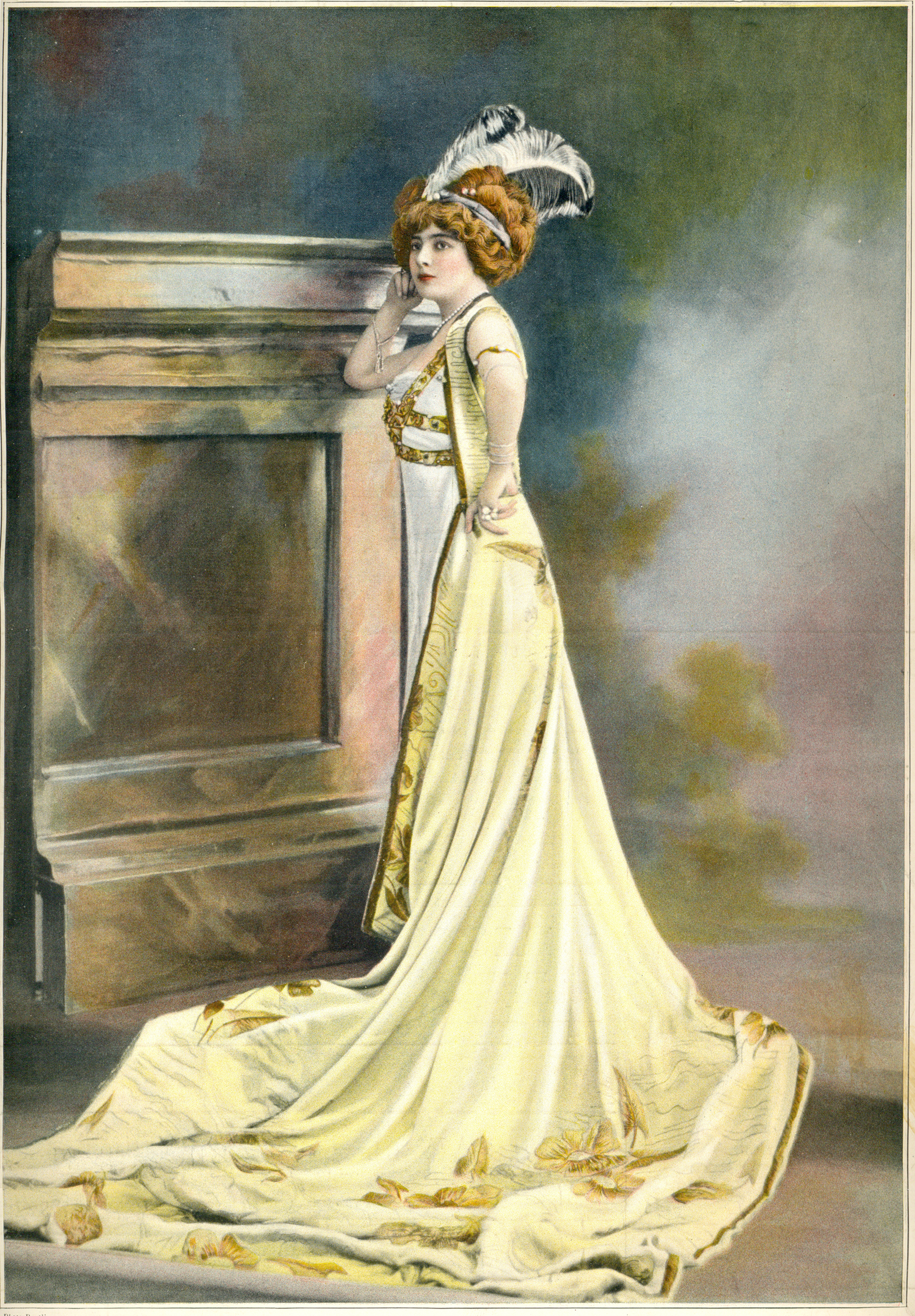 circa 1900